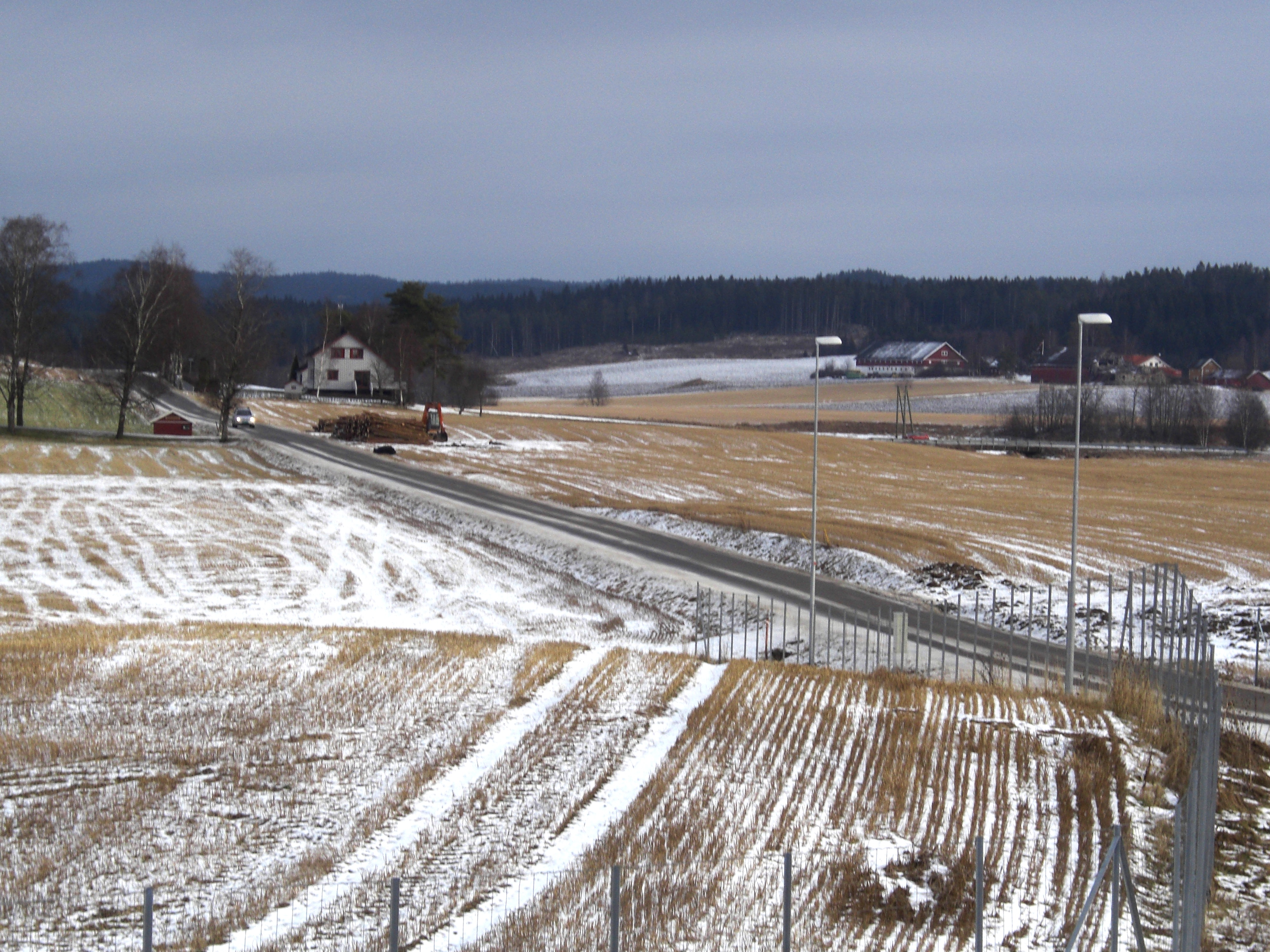 Havnåsveien